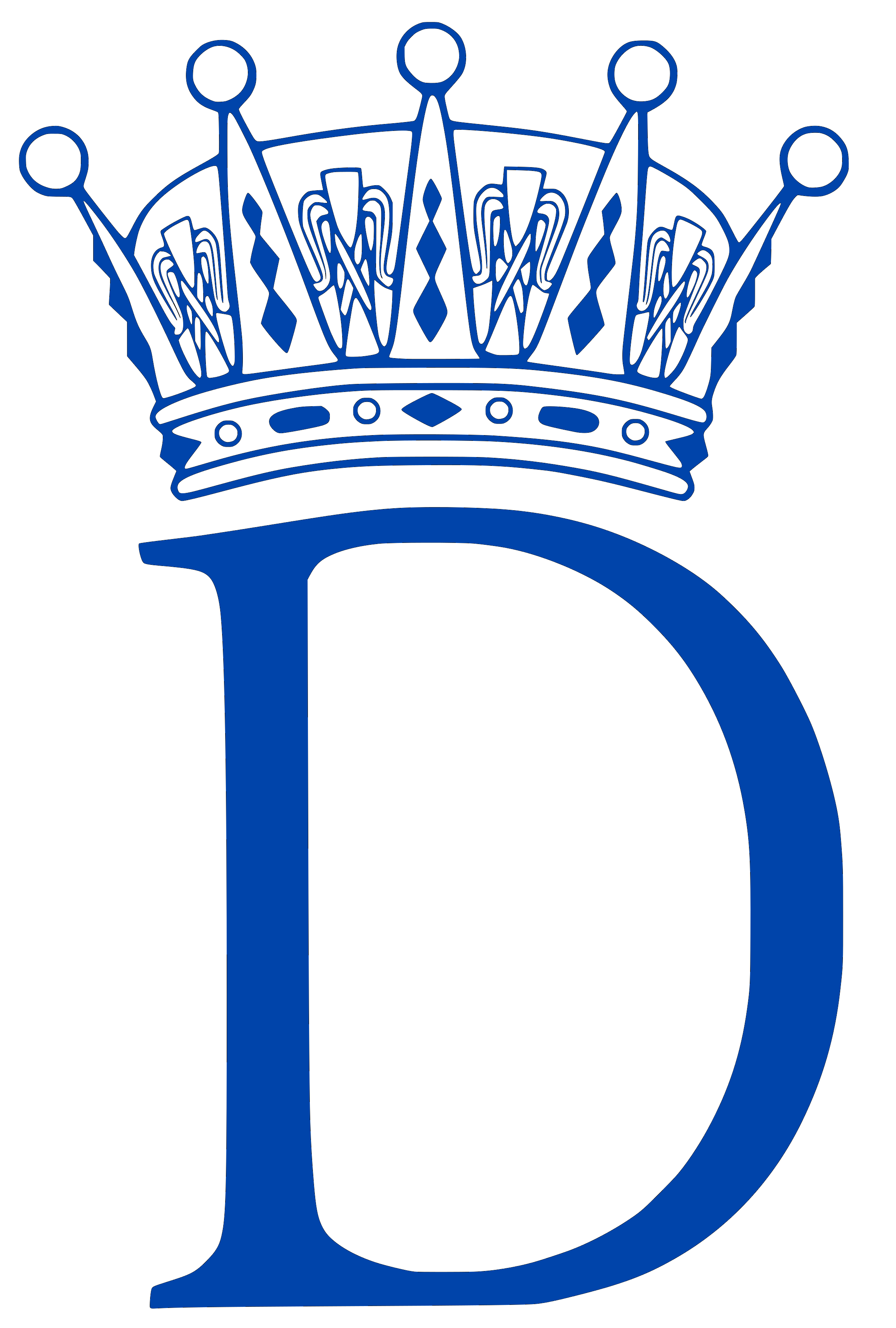 Royal Monogram of Prince Daniel, Duke of Västergötland